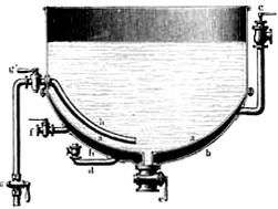 Defecator (Apparatus used in sugar mills) taken from Book 16 of the 4th edition of Meyers Konversationslexikon (1885–90)